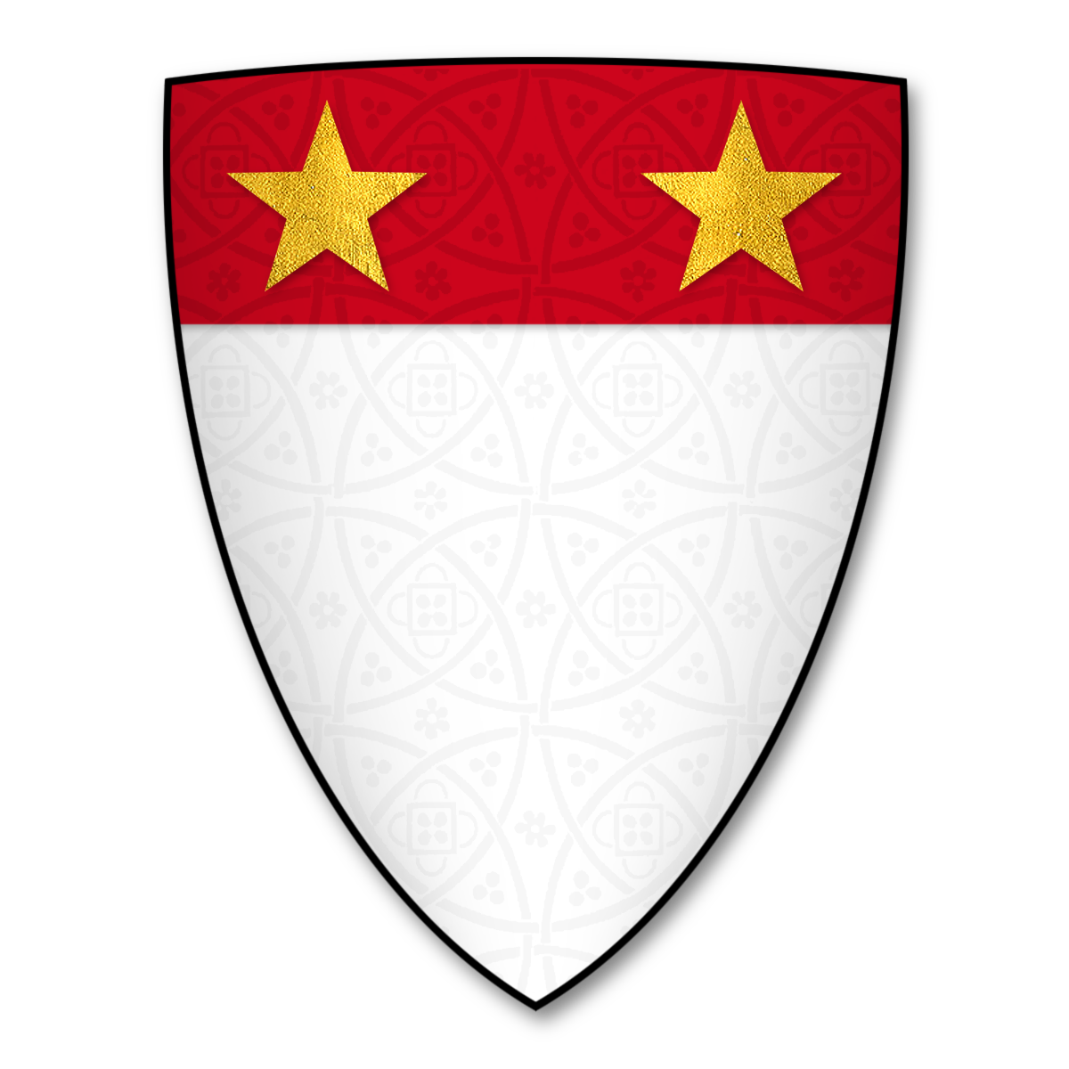 Coat of arms of John de St. John, as blazoned in the Caerlaverock Poem (K-067: "Johan de Saint Johan") "Ki sur touz ses guarnemens blancs El chief rouge ot de or deus molectes." Arms: Argent, on a chief gules two mullets or.